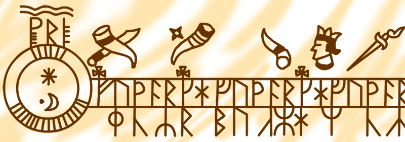 Detail of a Runic Calendar, showing the three rows of symbols